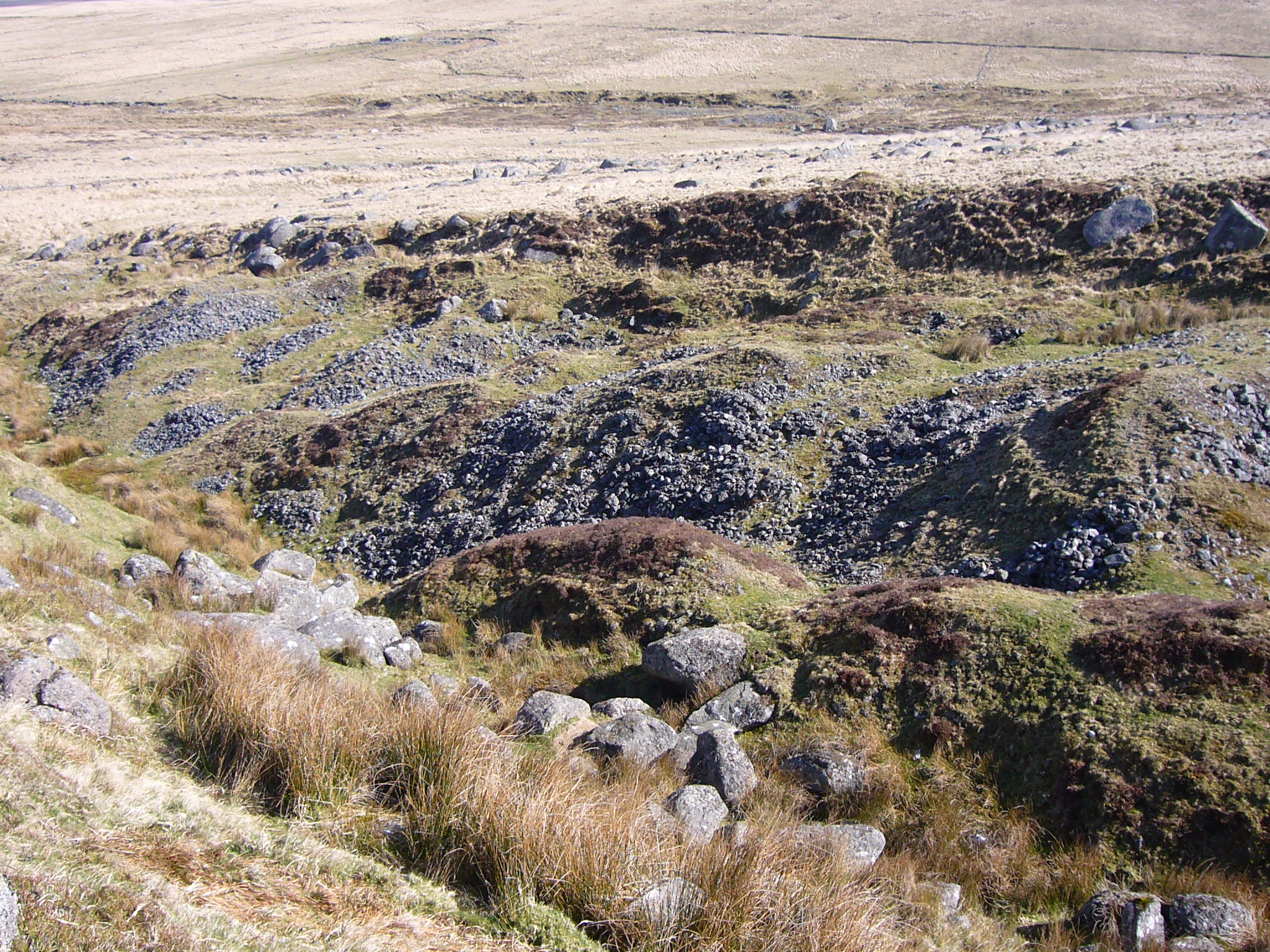 Area of open tinners workings immediately East of Fox Tor on South Dartmoor.